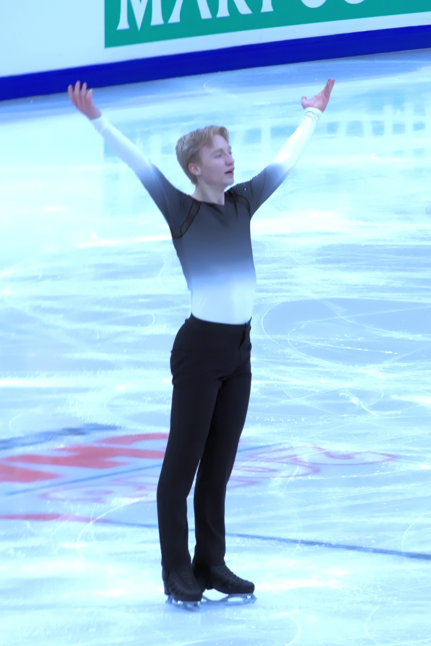 Sondre Oddvoll Bøe at the 2018 European Figure Skating Championships in Moscow